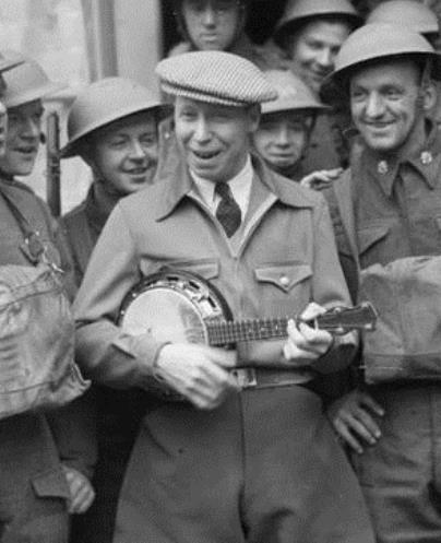 George Formby with the British army in France, 1940